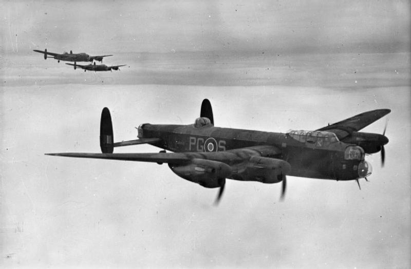 Aircraft of the Royal Air Force 1939-1945- Avro 683 Lancaster. Three Lancaster B Mark IIIs of No. 619 Squadron RAF, airborne from Coningsby, Lincolnshire. The aircraft in the foreground, LM418 ‘PG-S’, was destroyed in a crash-landing at Woodbridge Emergency Landing Ground after returning from the ill-fated Nuremberg raid of 30/31 March 1944 on two engines. Its crew survived the crash, but were all killed in action later